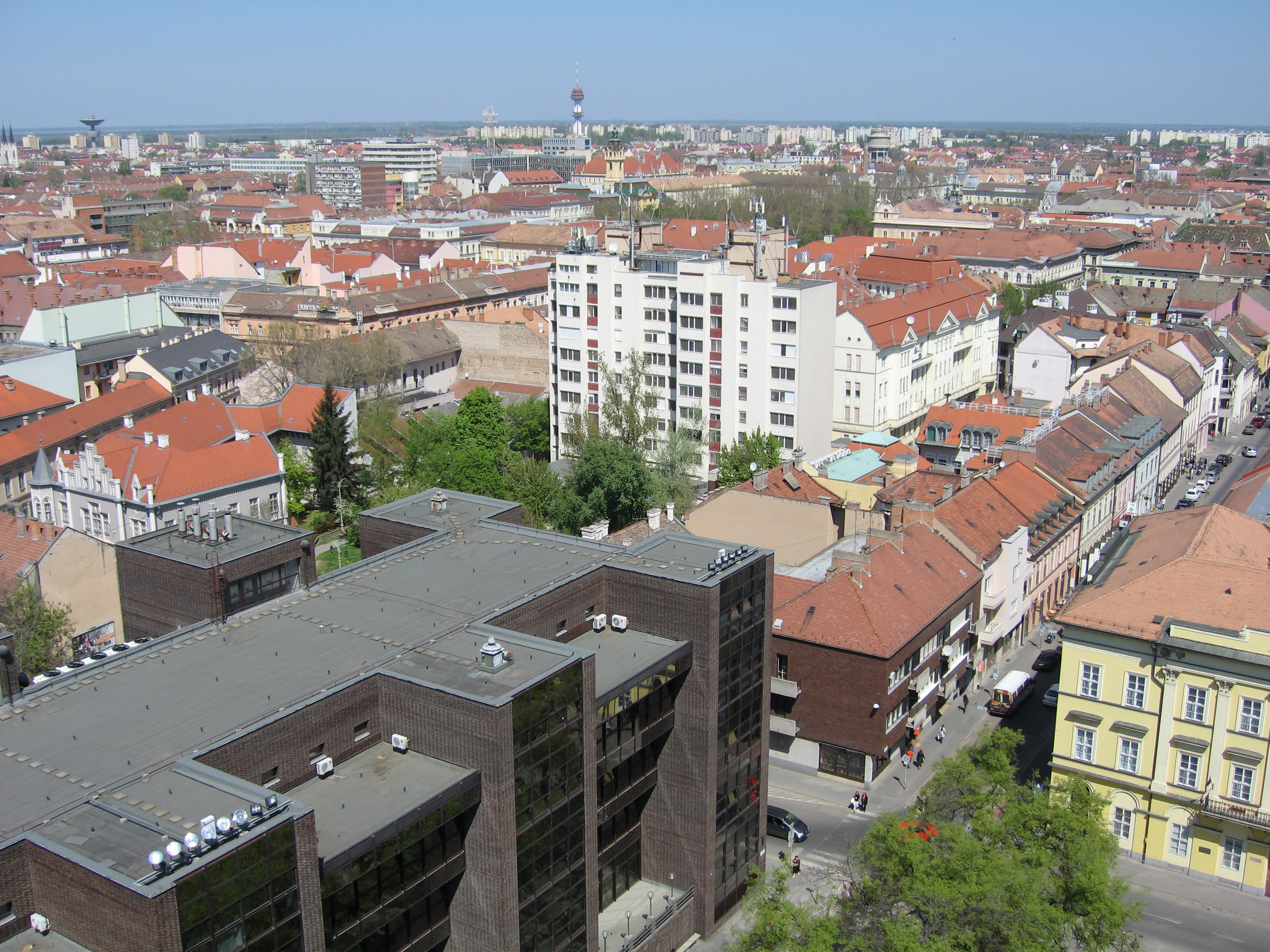 Szeged Panorama image in the foreground to the building of the Somogyi Library